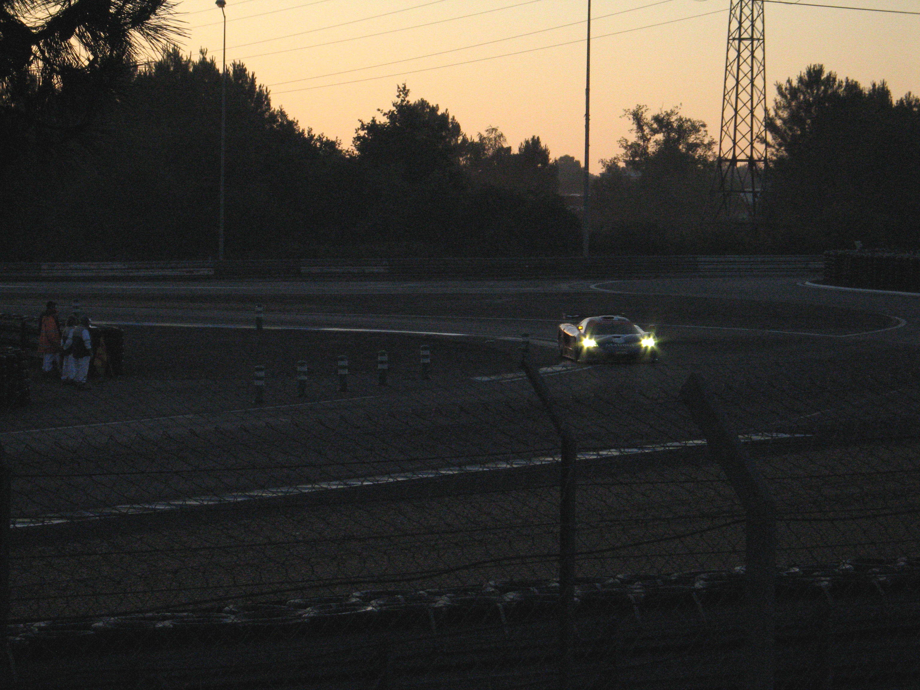 Break of dawn at the 2007 24 Hours of Le Mans